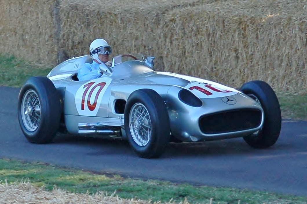 Stirling Moss demonstrating a 1954 Mercedes-Benz W196 at the Goodwood Festival of Speed.